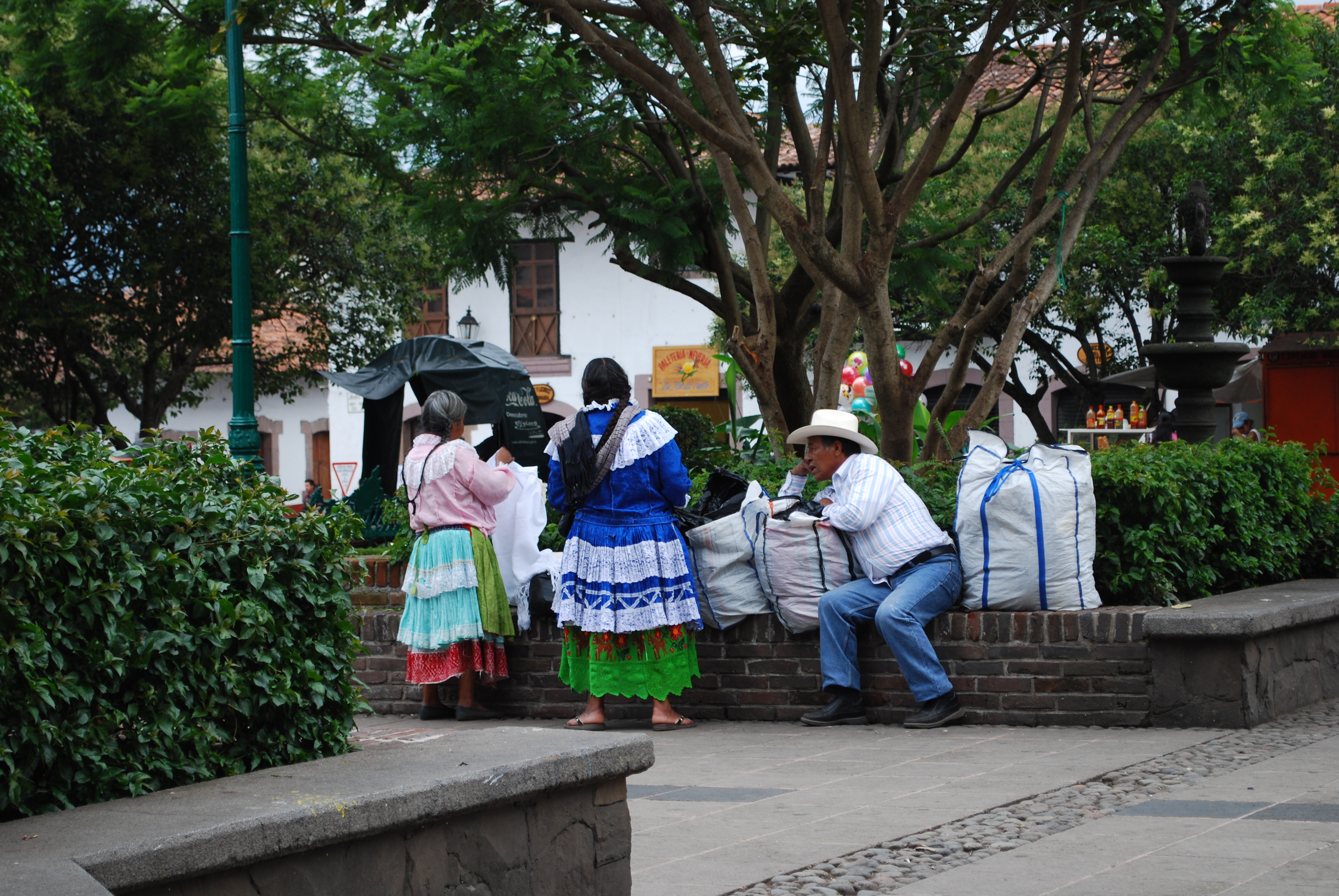 Indigenous people (Mazahua?) in the main plaza of Valle de Bravo, Mexico State